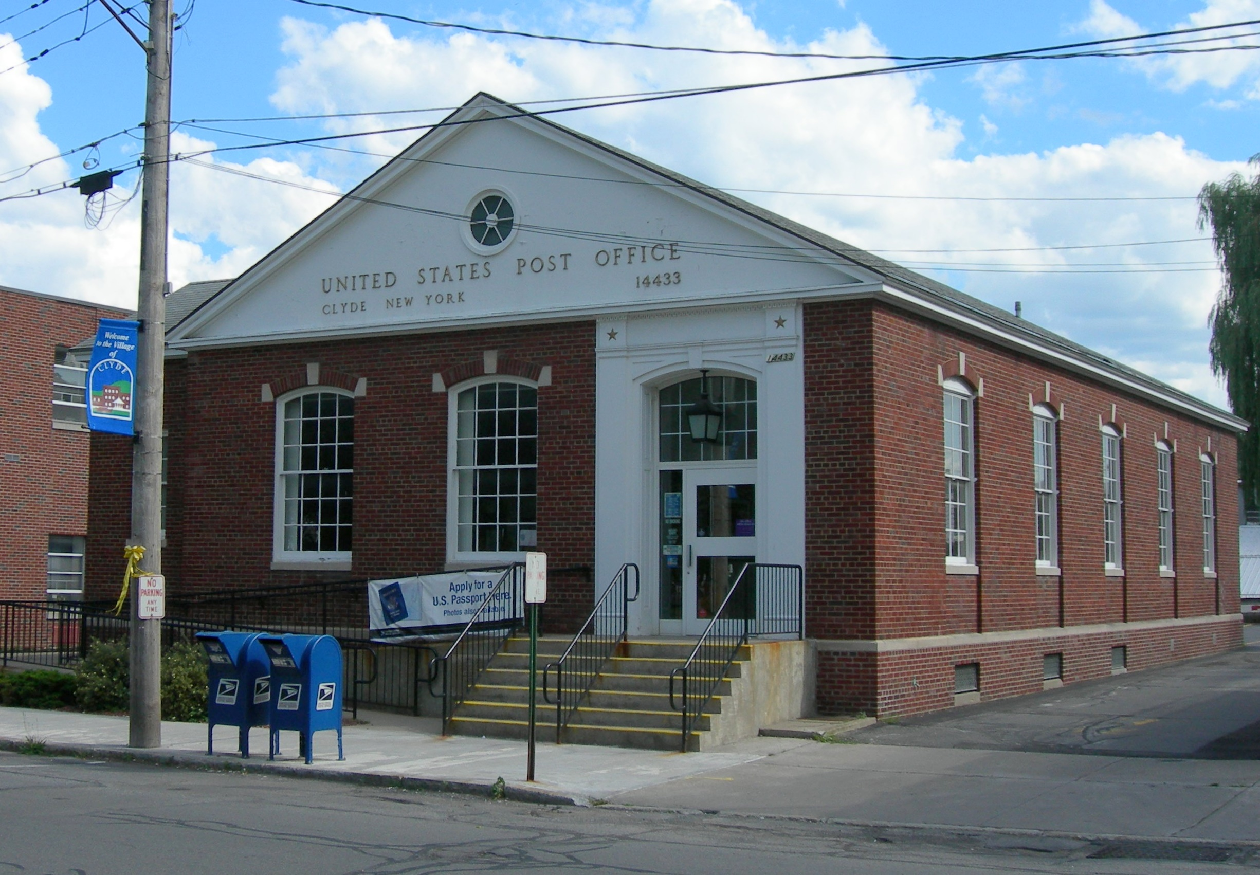 Constructed in 1939. New Deal mural